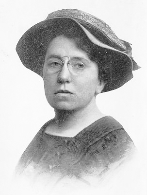 Emma Goldman, anarchist activist and writer